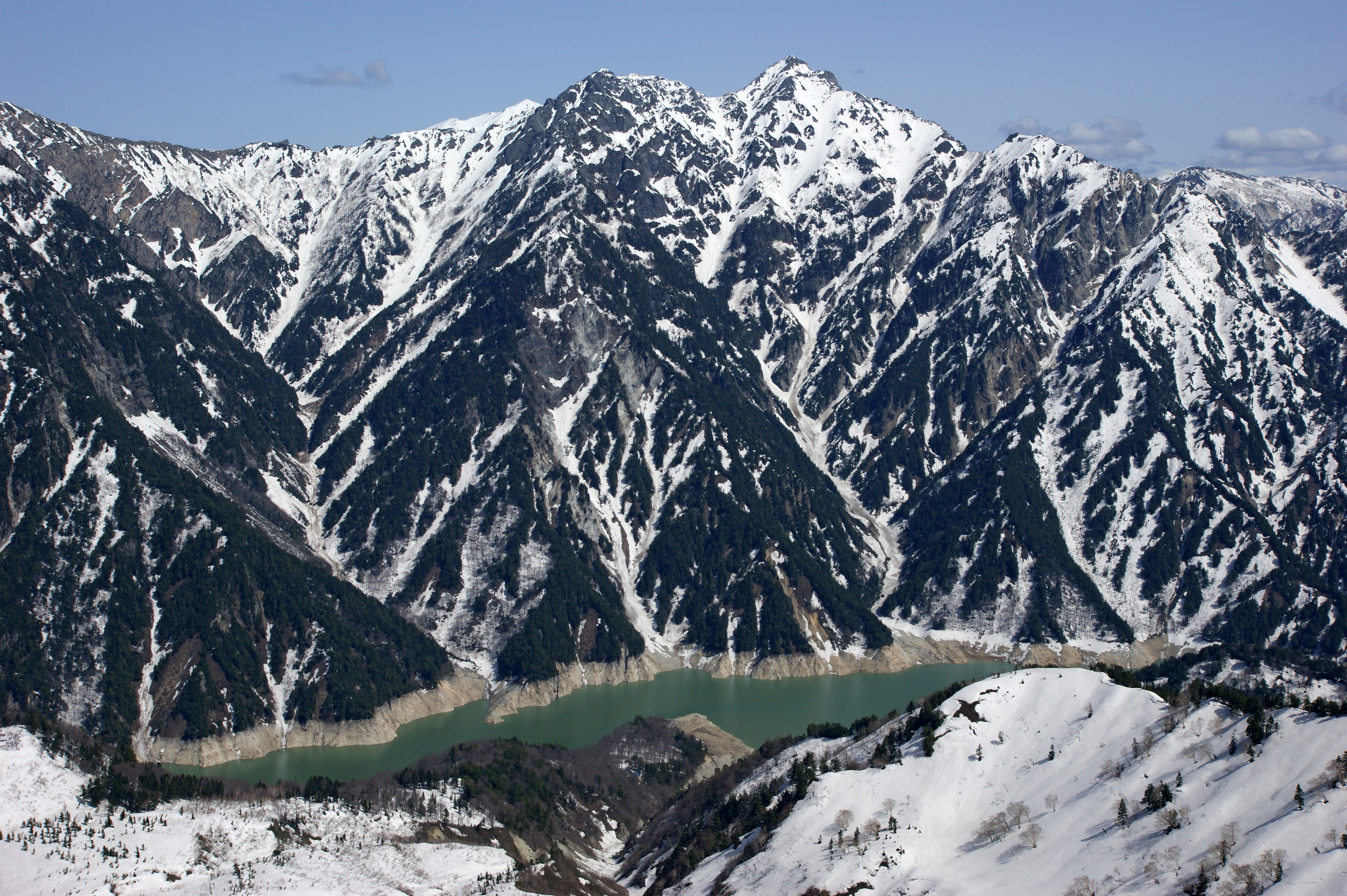 Lake Kurobe reservoir from Daikanbo Station — in the Hida Mountains, Toyama prefecture, Japan With Mt. Subari-Dake peaks(left, 2752m), Mt. Harinoki-Dake peaks(right, 2821m) and Lake Kurobe(1455m) from Daikanbo(2316m).